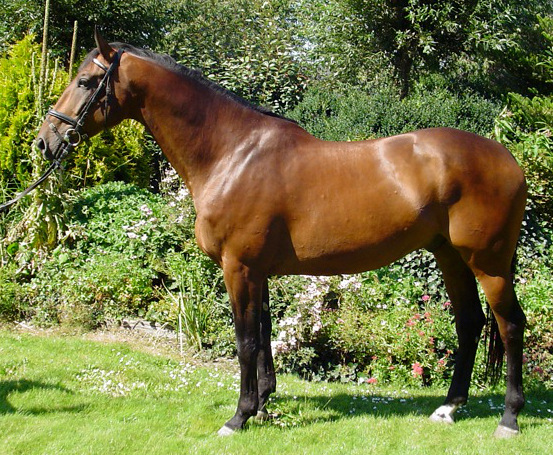 KWPN, on the Noordoostpolder , Flevoland, Photographed with Sony DSC-P52